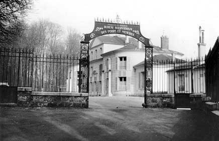 The Pavillon de Breteuil in Saint-Cloud (postal address Sèvres), France. The seat of the International Bureau of Weights and Measures ((Bureau international des poids et mesures, acronymed “BIPM”). From the NIST historical collection.